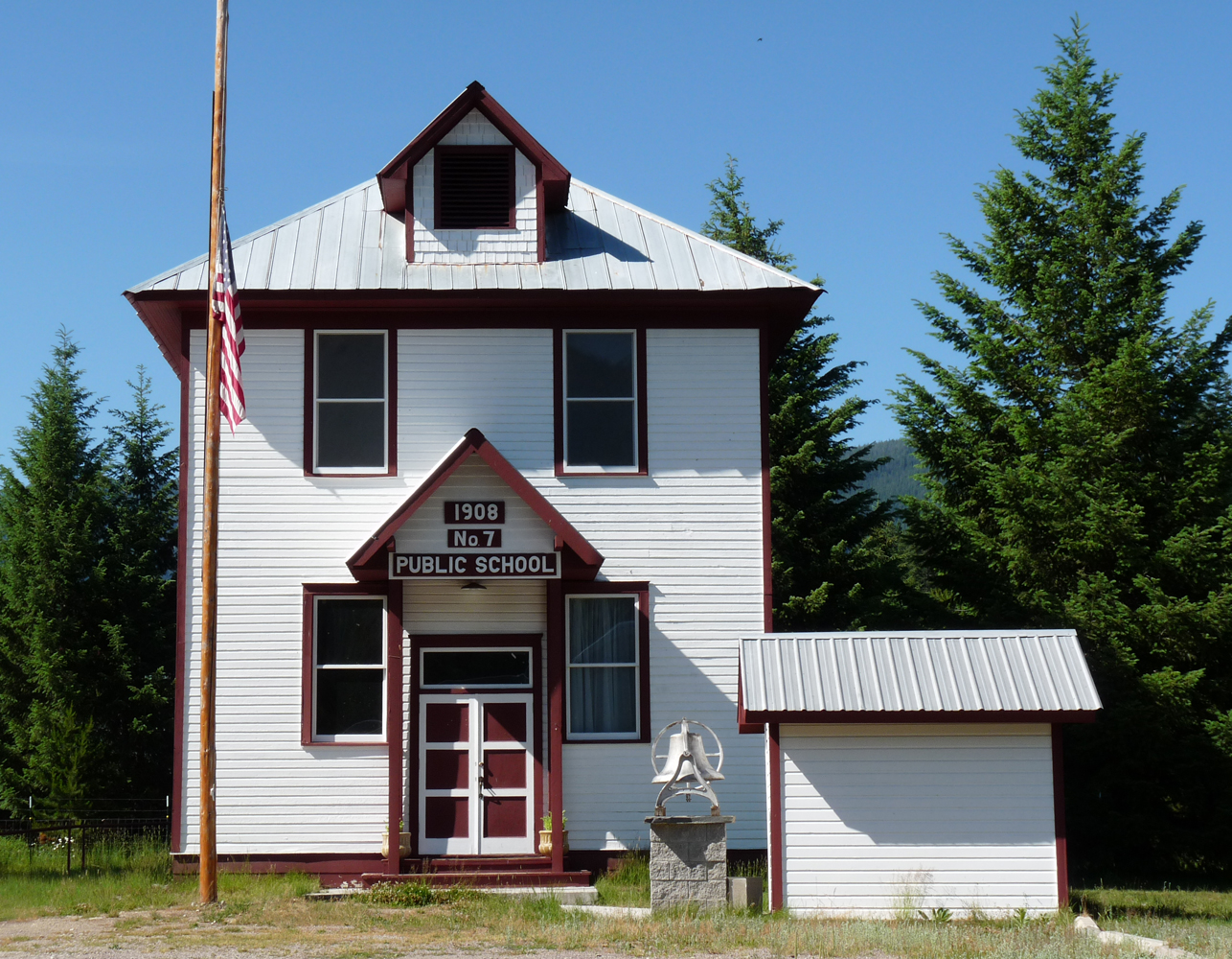 South elevation of De Borgia Public School (No. 7) in De Borgia, Mineral County, Montana, showing bell and flag pole.